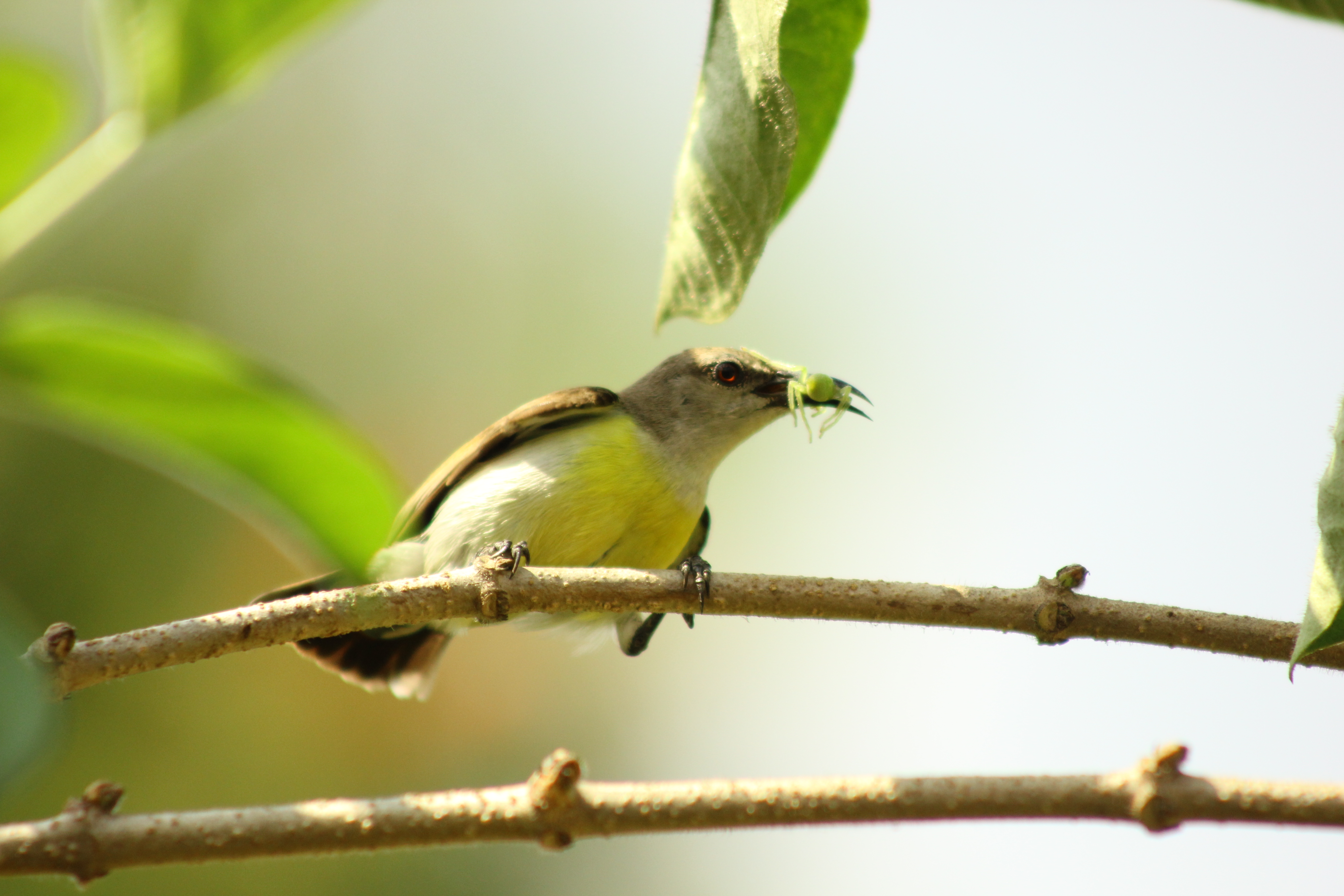 Purple rumped Sunbird on a twig with a spider in its beaks. It was about to feed its hatchling.